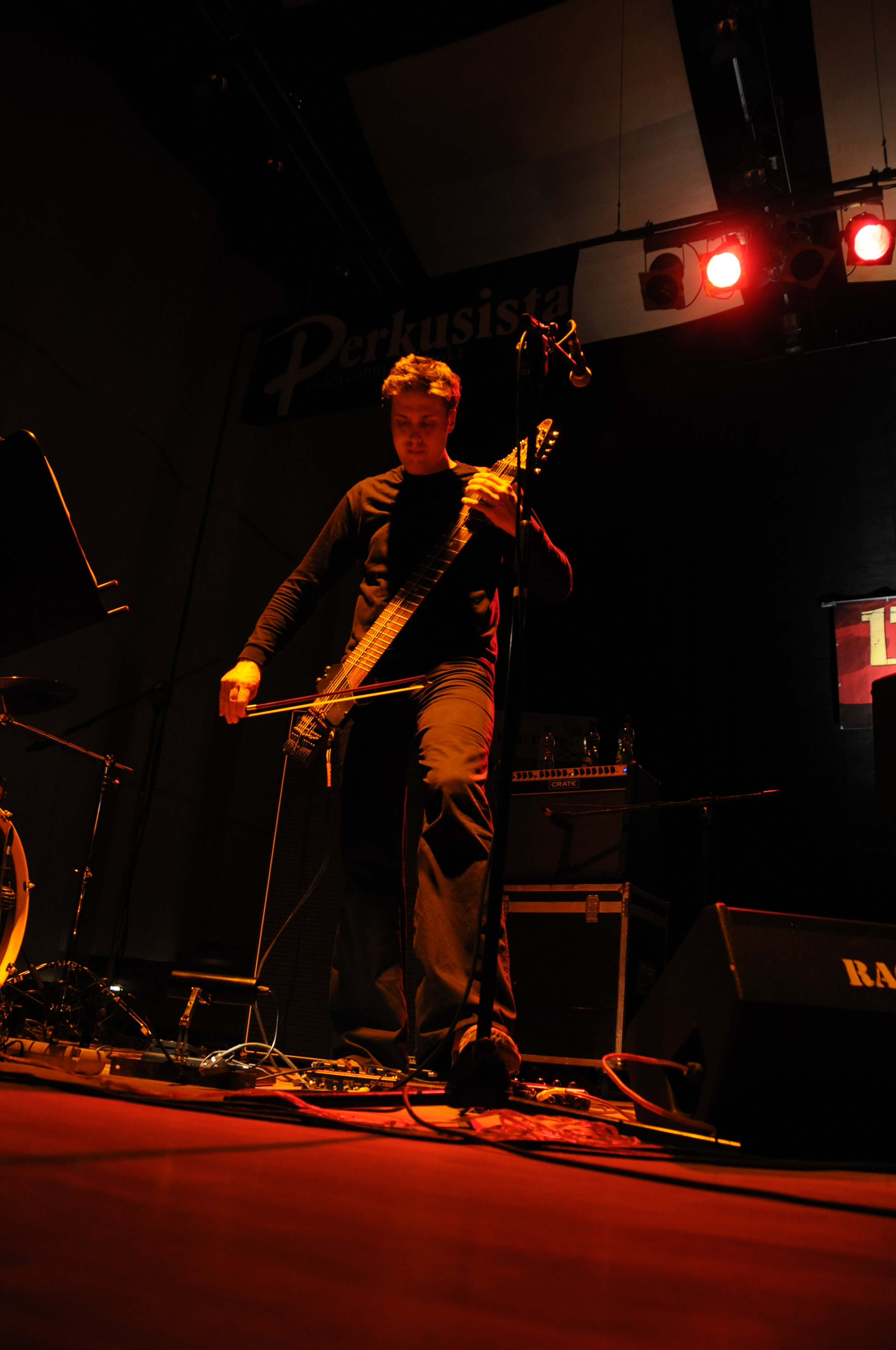 Sounded like an ensemble of chellos... Awesome!